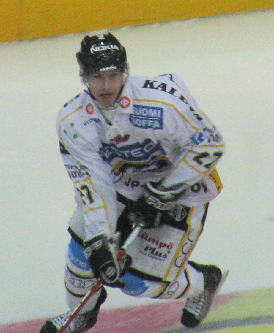 Joonas Donskoi of Kärpät